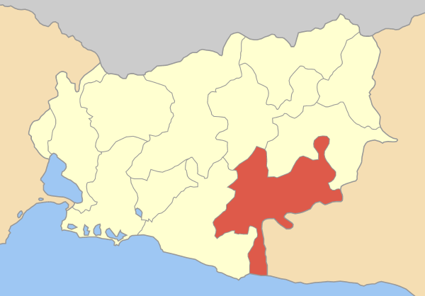 Locator map of Sapes municipality (Δήμος Σαπών) in Rodopi prefecture (Νομός Ροδόπης) in Greece.